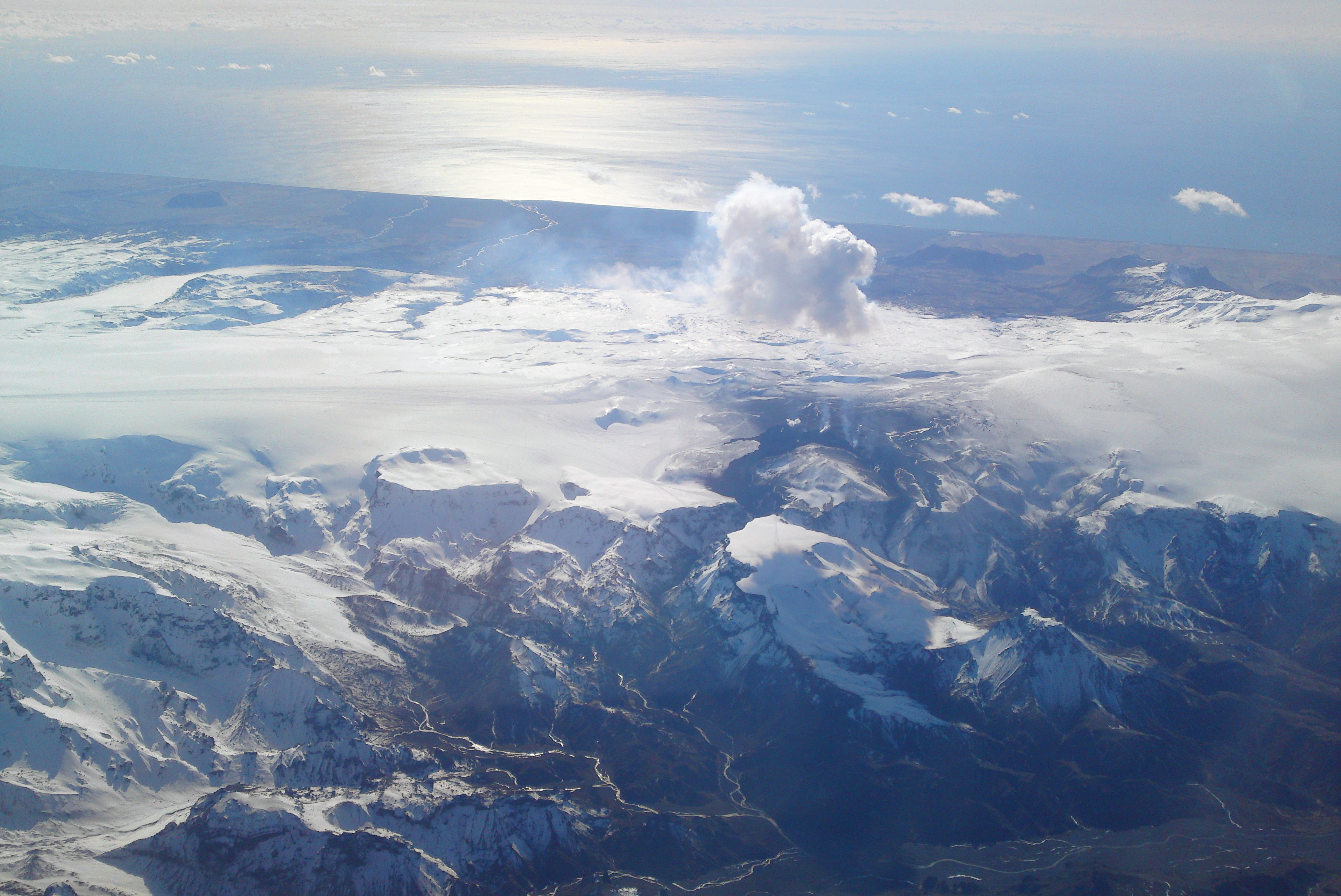 North view of the Eyjafjallajökull on 4 April 2010 from an altitude of 10.000 meters. This picture was taken minutes after taking off, heading east towards Copenhagen.